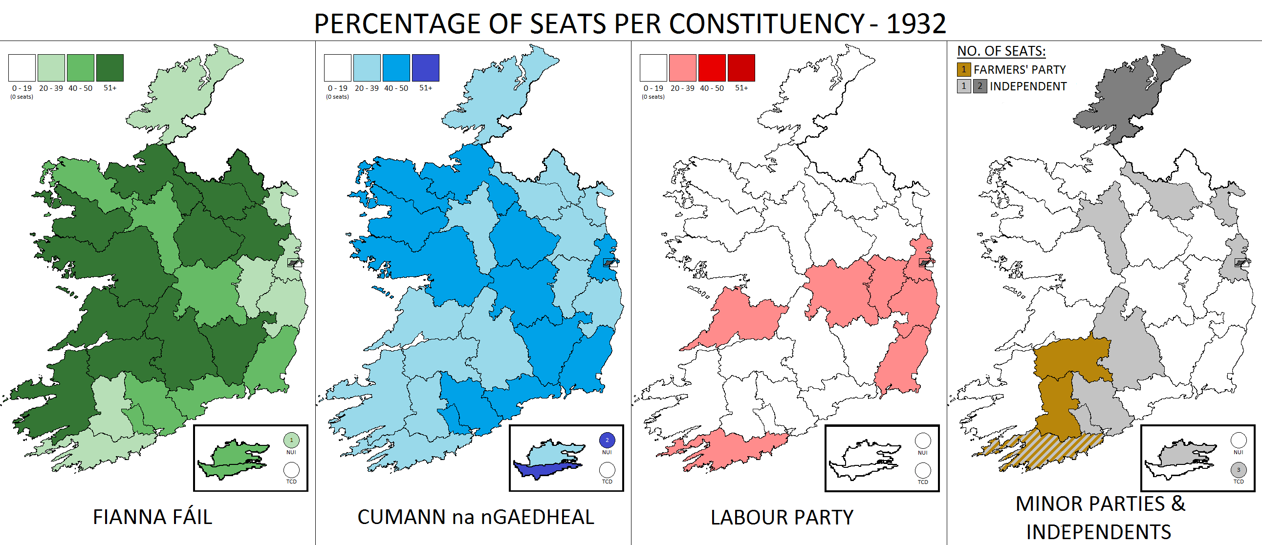 Graphical representation of the 1932 Irish general election results. Created by myself using data from Wikipedia and literary sources.